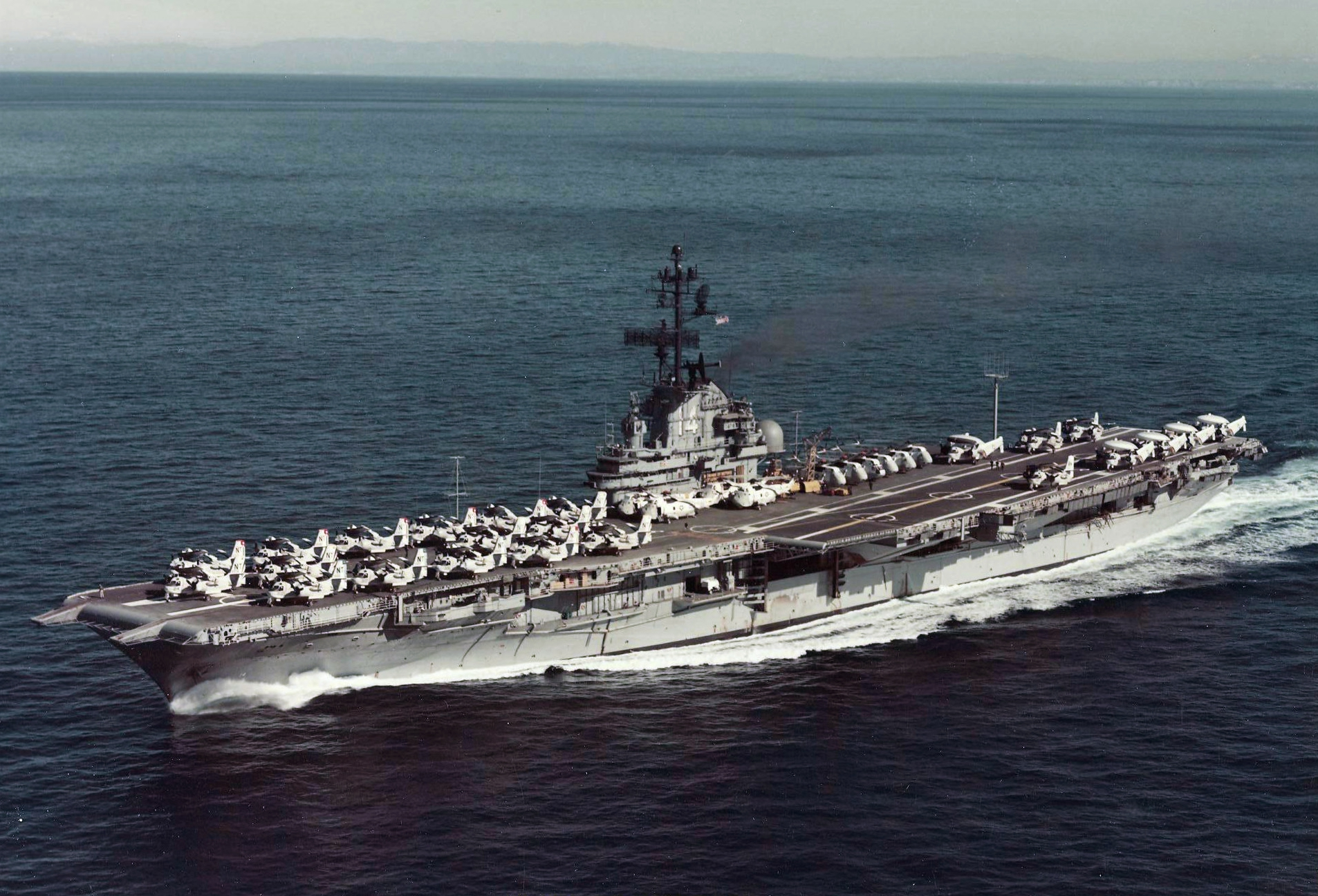 The U.S. Navy aircraft carrier USS Ticonderoga (CVS-14) underway off the coast of California (USA) bound for the Western Pacific in 1972. Ticonderoga, with assigned Carrier Anti-Submarine Air Group 53 (CVSG-53), was deployed to the Western Pacific from 17 May to 29 July 1972.